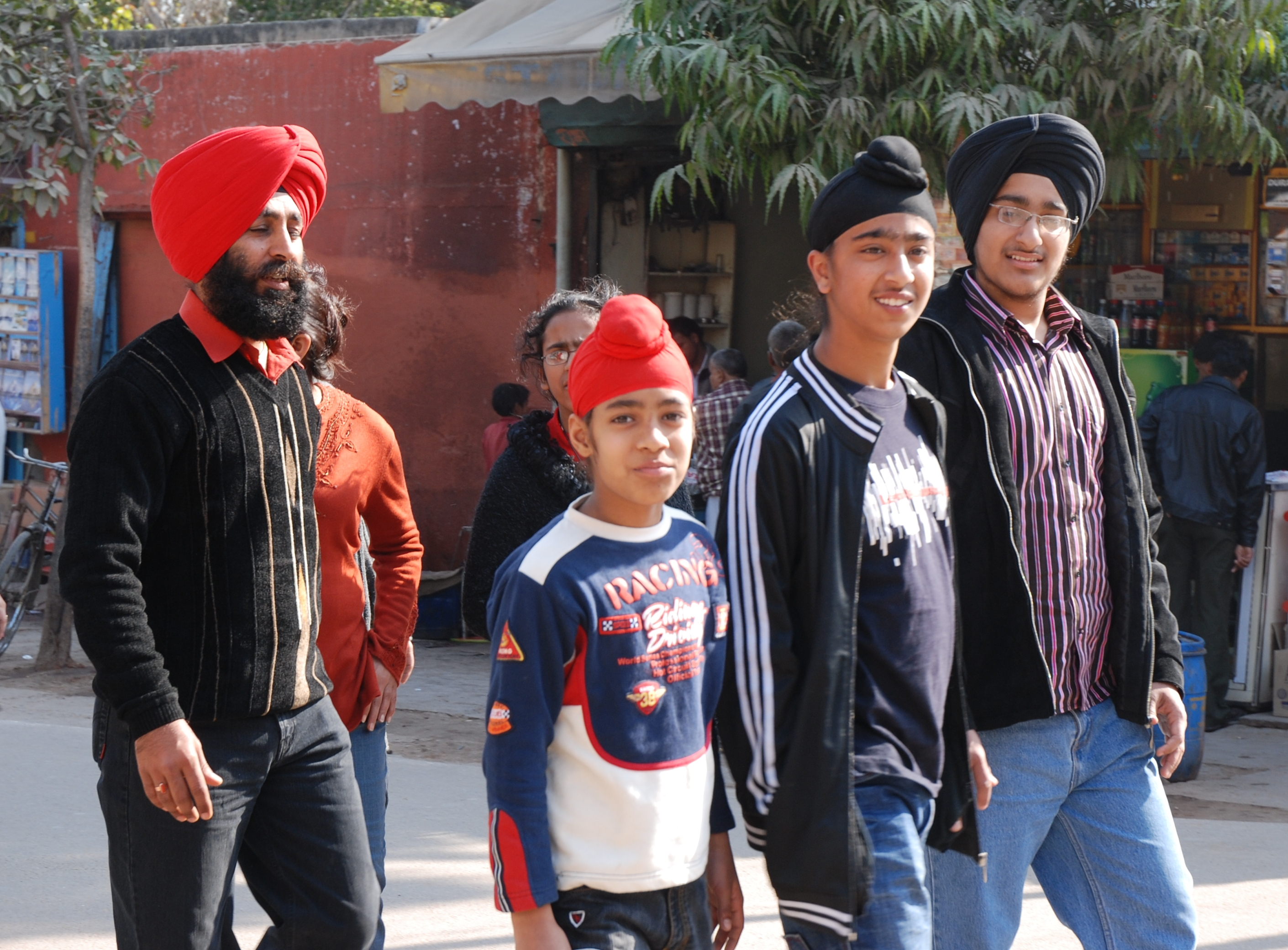 Sikh family in Agra, northern India (cut-out)